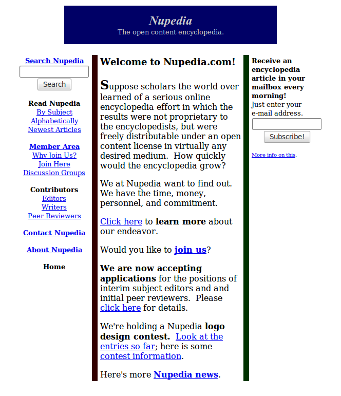 screenshot from Internet Archive.